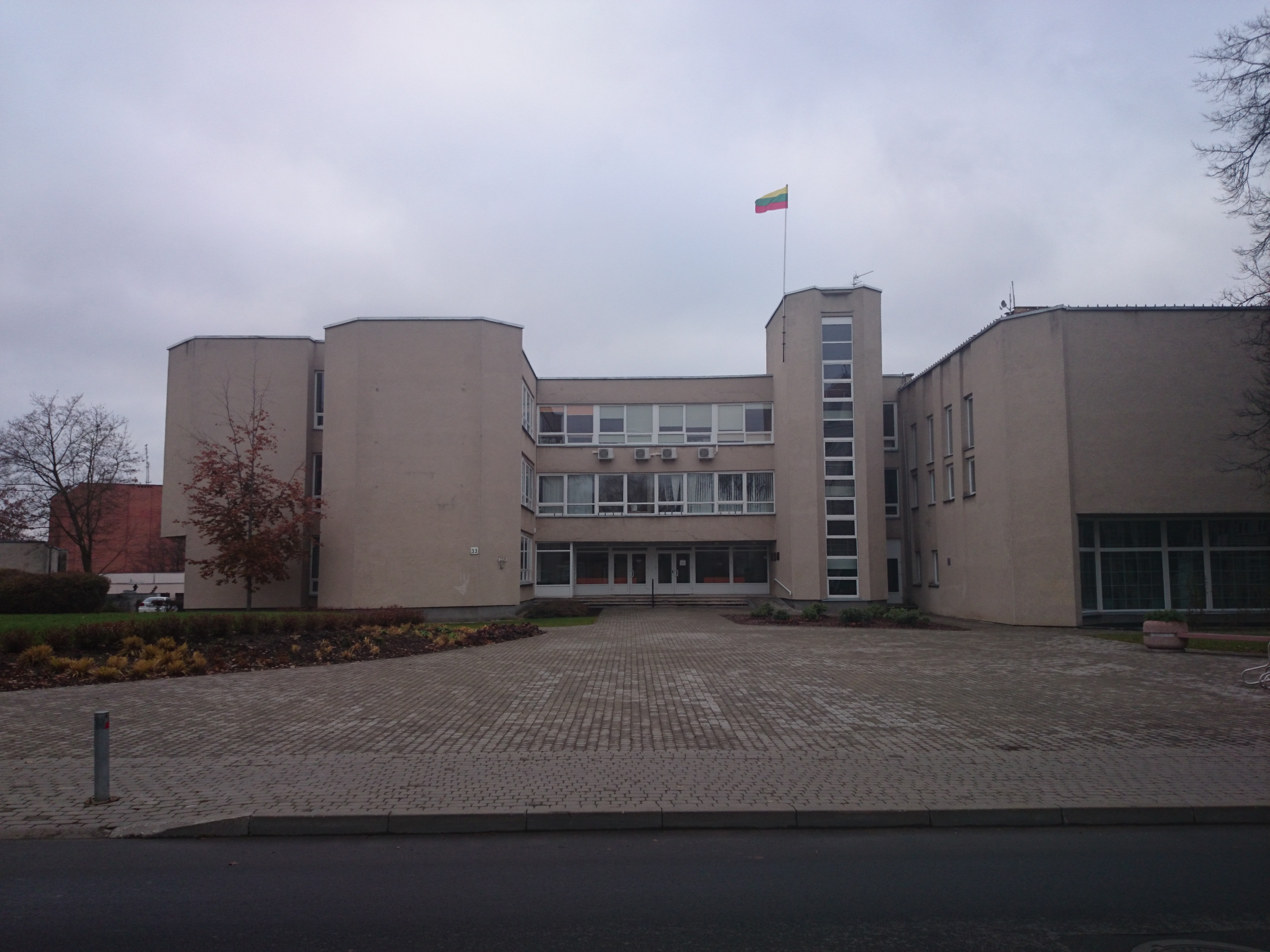 Trakai